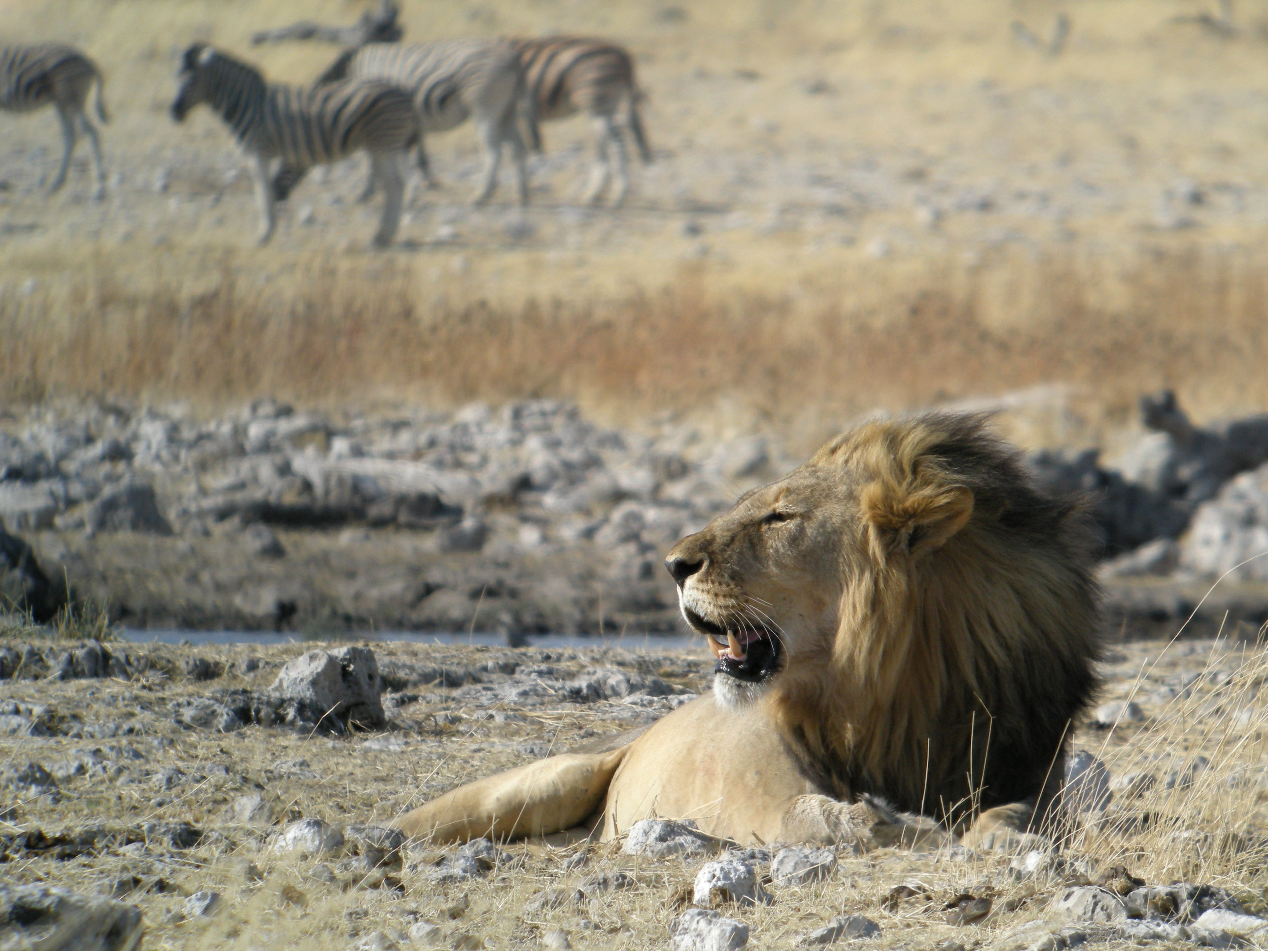 Digiscoping with Swarovski ATM 80 HD 30 X, Coolpix P5100 (Adapter DCB)